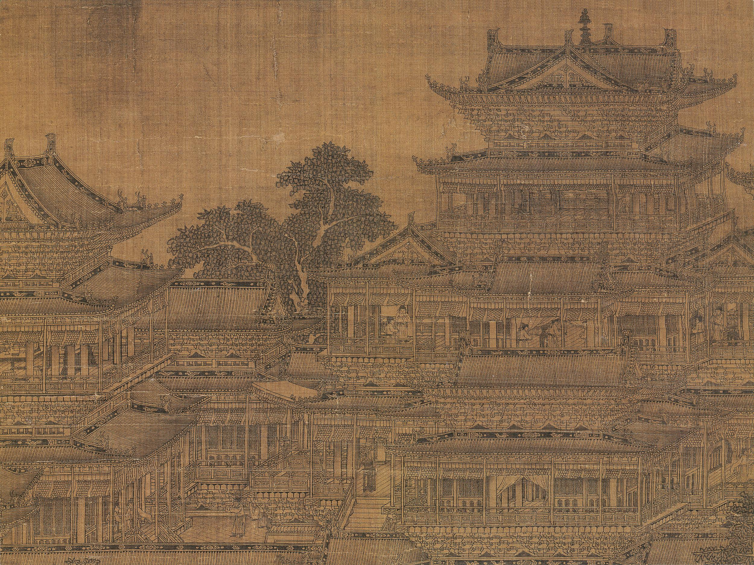 Guo Zhongshu, Summer Palace of Emperor Ming Huang, detail, Osaka City Museum of Fine Art